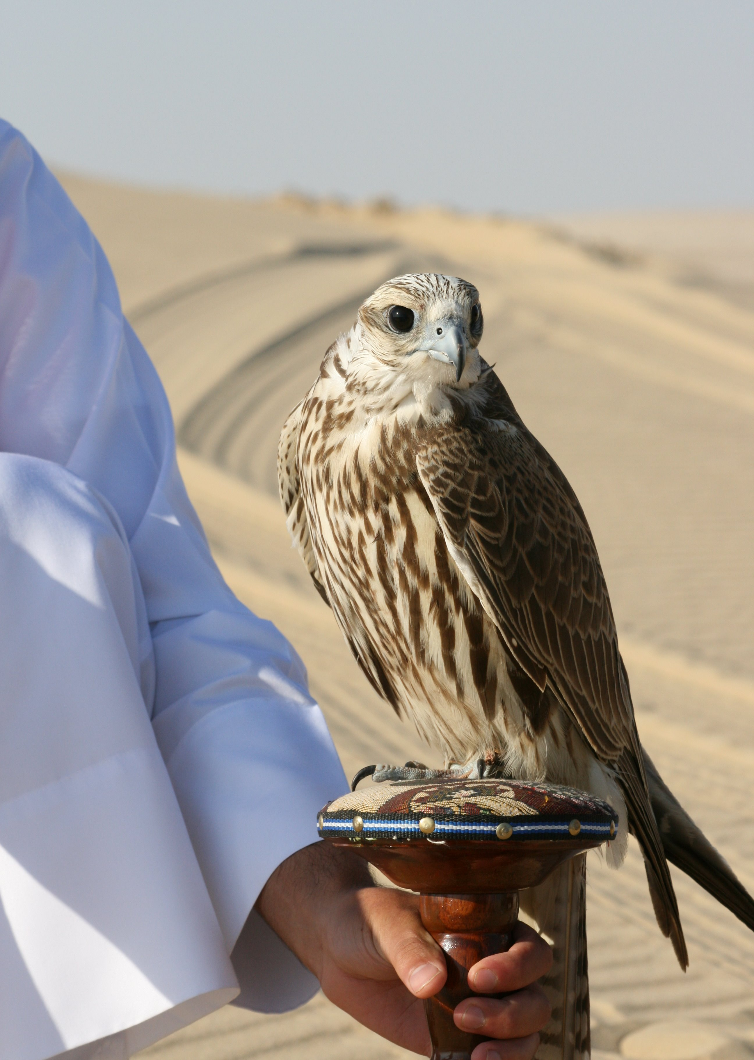 A captive Saker Falcon (Falco cherrug) used in falconry in Doha, Qatar.